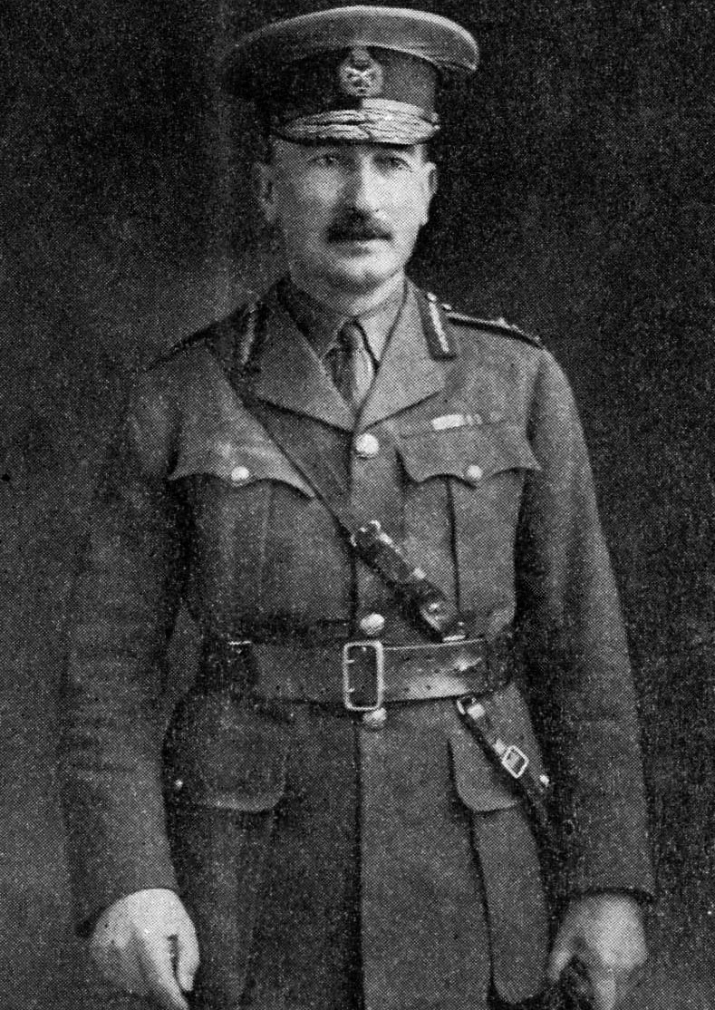 Lt-Gen Claude William Jacob